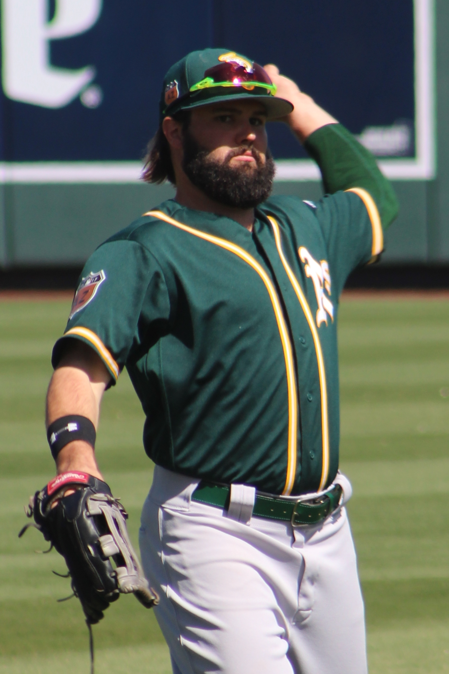 Outfielder Jaff Decker - Oakland A's at Arizona Diamondbacks: Spring Training - 3/7/17